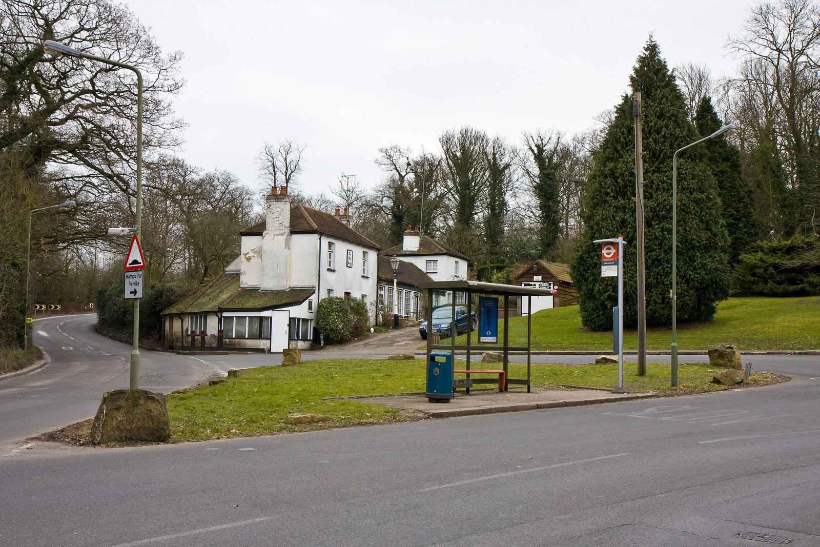 Triangular Junction by The Old Forge This junction is located at the meeting of Highwood Hill (behind me), Holcombe Hill (on the left) and Lawrence Street (on the right). The Old Forge is the nearest of the cluster of buildings opposite. The bus stop is served by the 251 route in the Edgware direction.